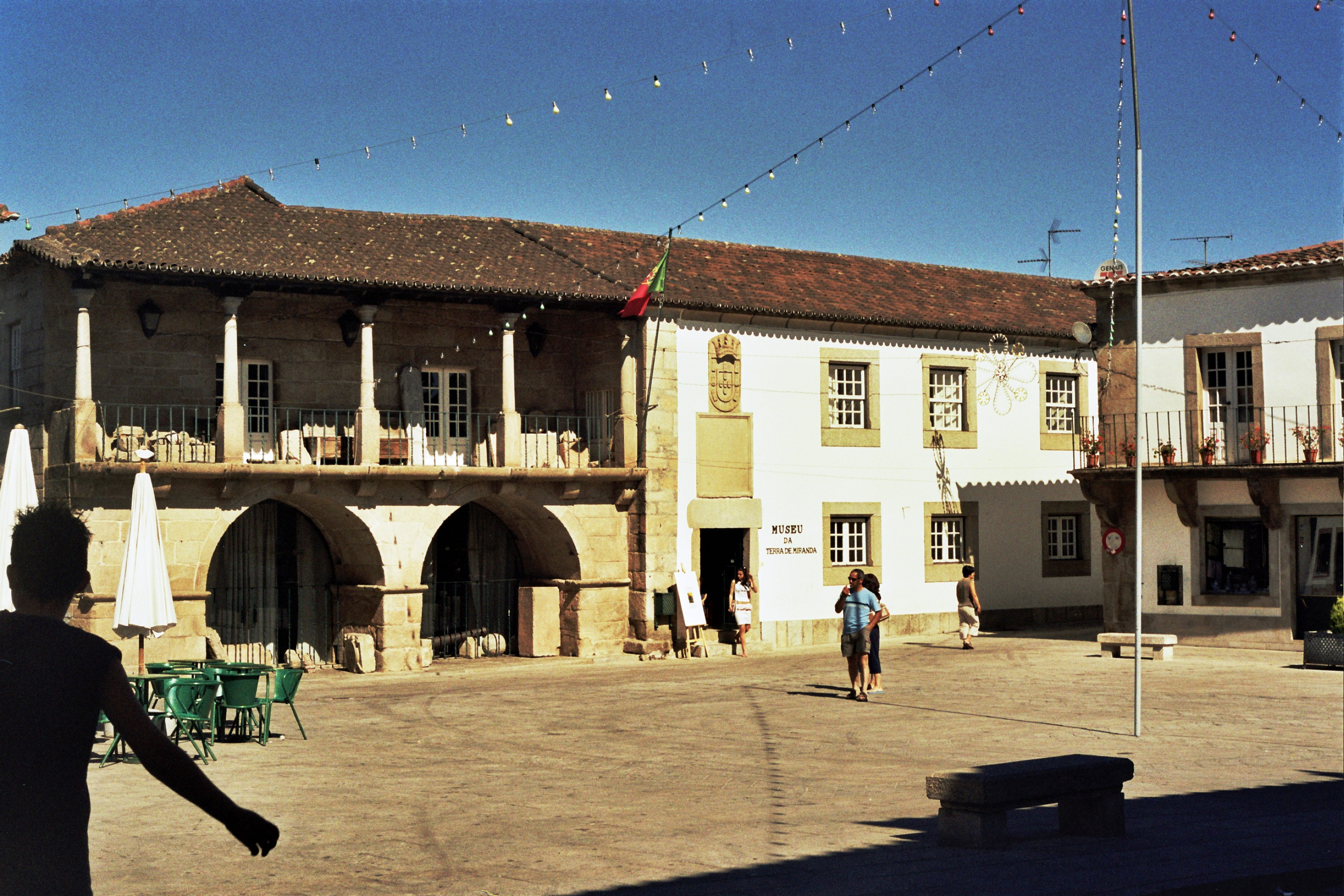 "Museu da Terra de Miranda" (museum of the lands of Miranda)